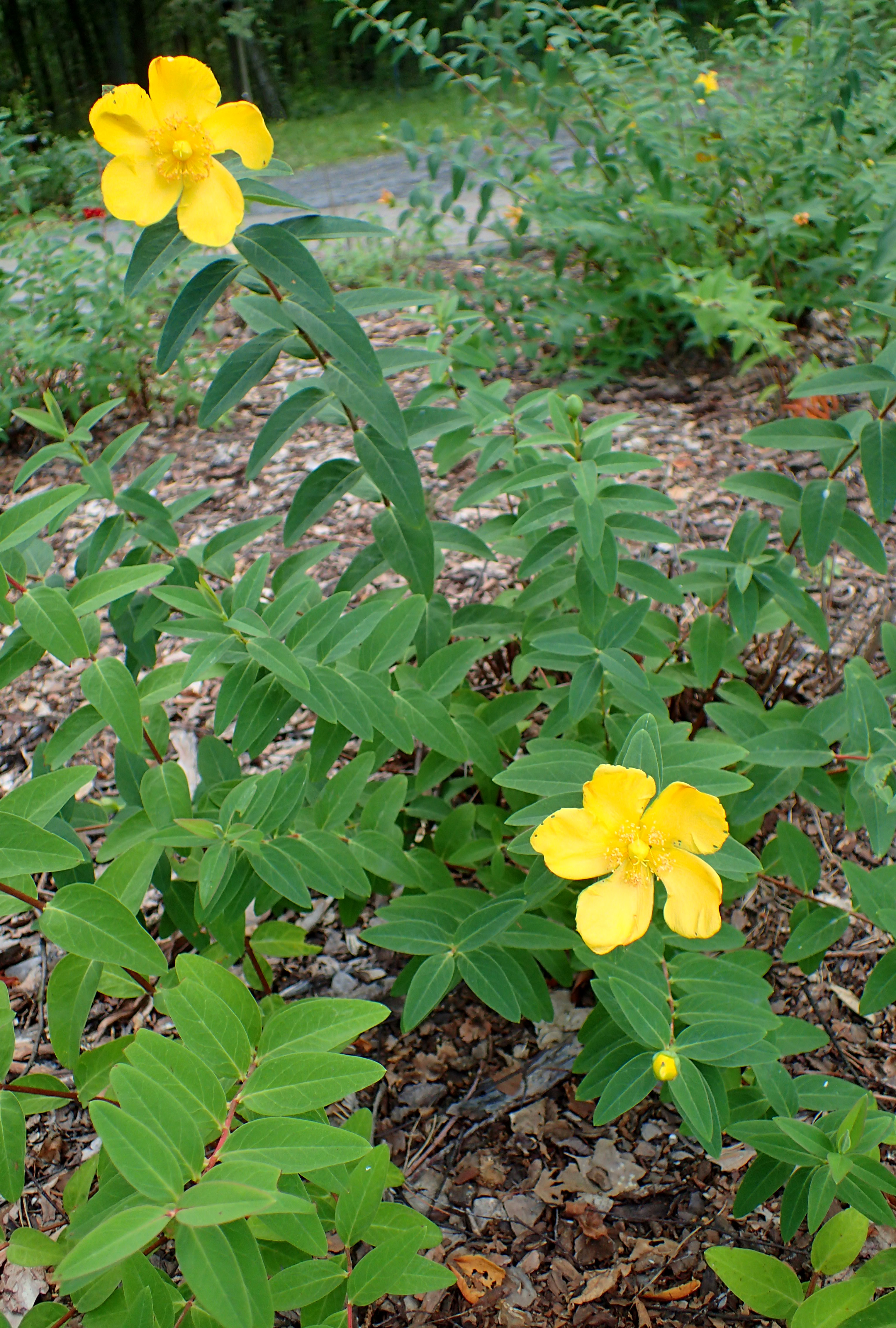 Hypericum 'Hidcote' at Botanical Garden in Zielona Góra